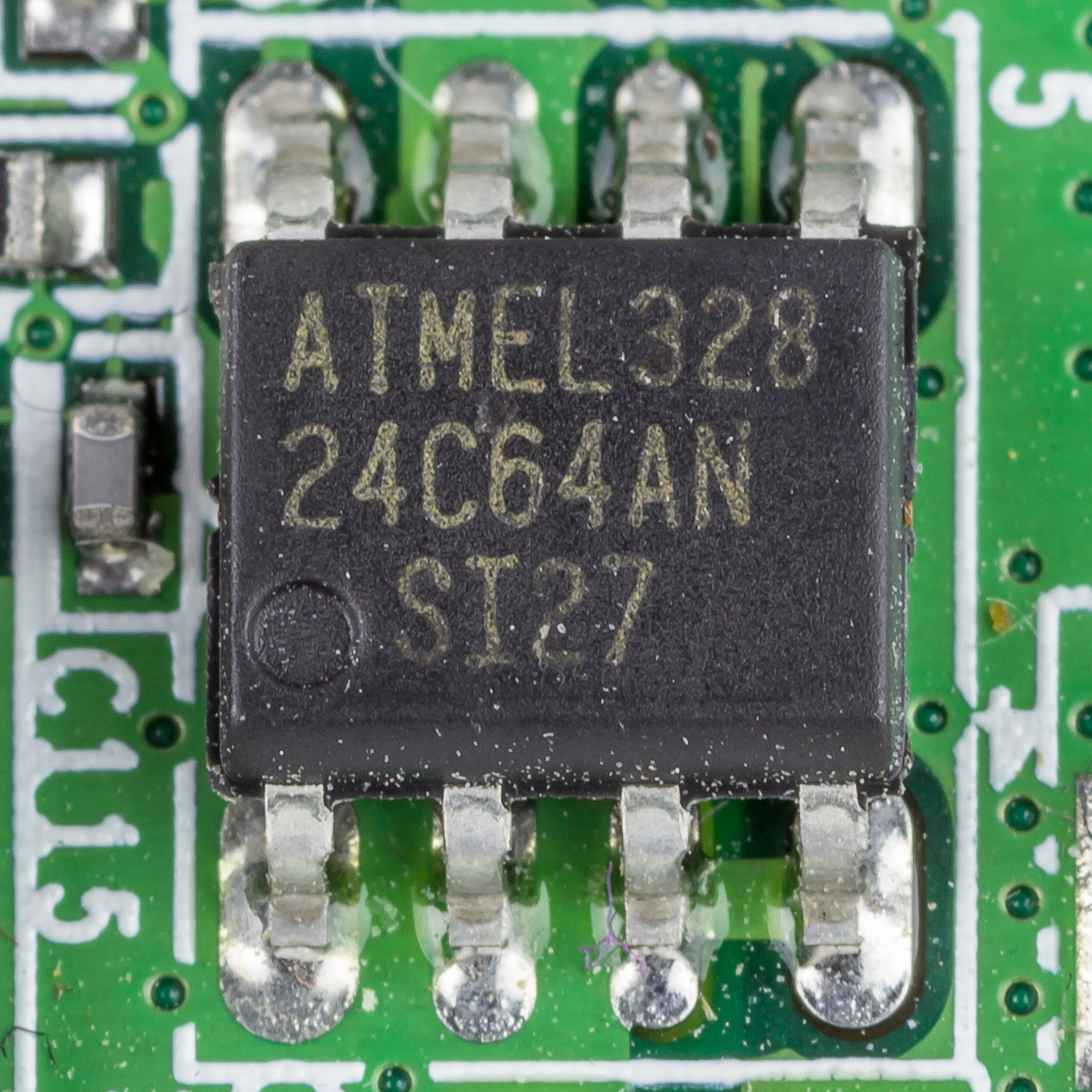 Canyon CN-WF514 - Atmel AT24C64 (2-Wire Serial EEPROM 64K) on expansion card